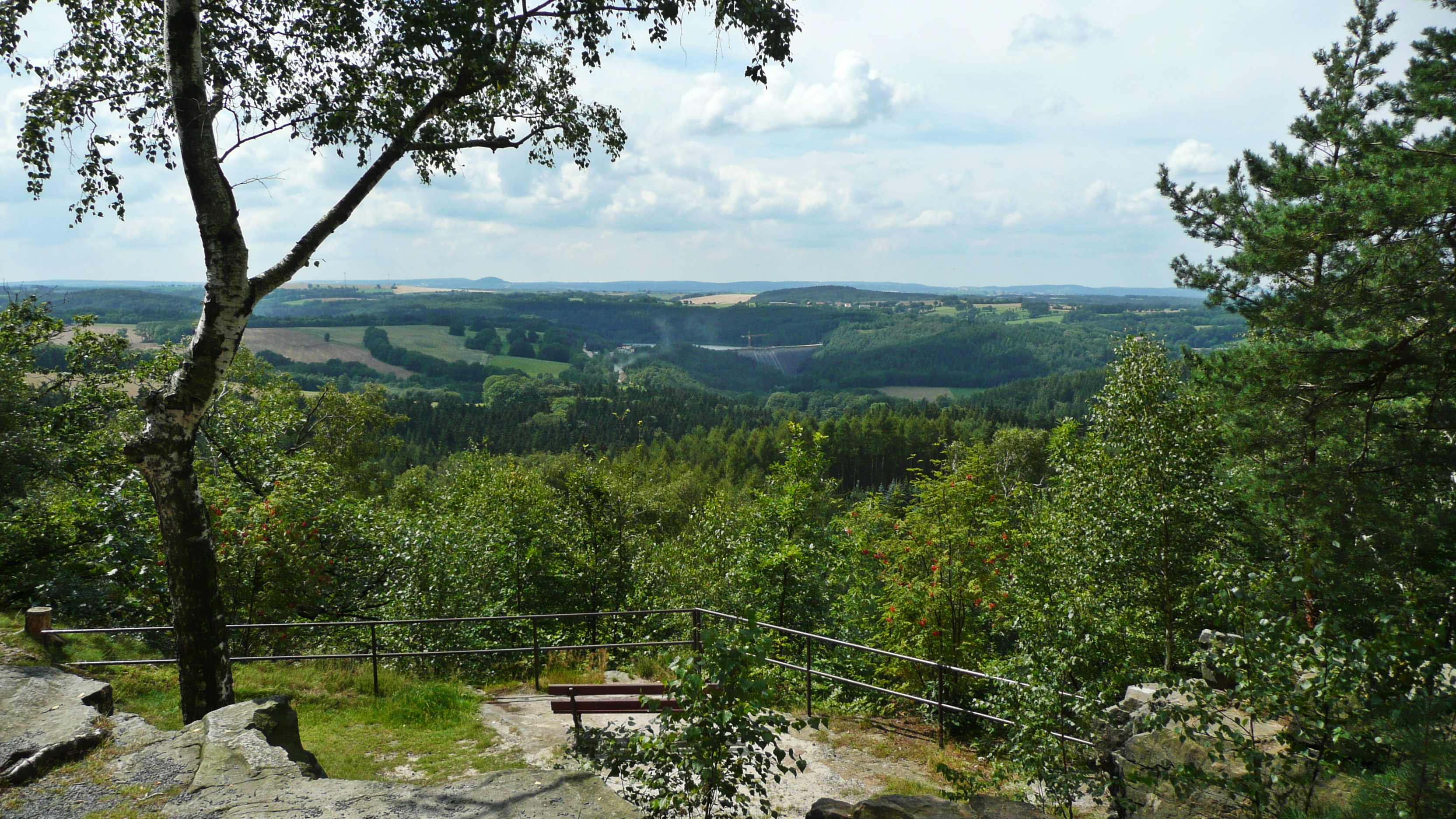 view from the Augustusberg (507 metres) in the Ore Mountains.